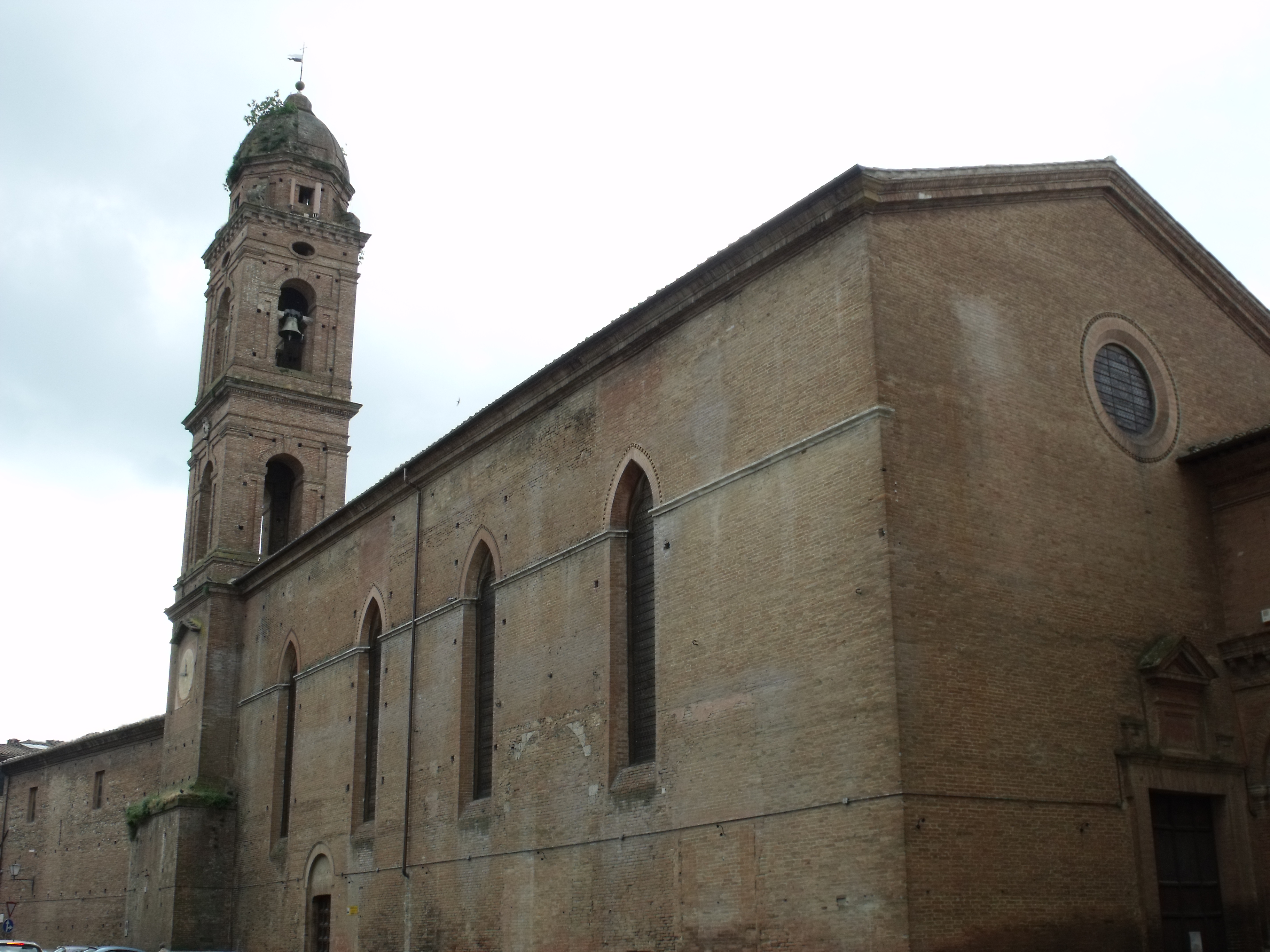 Church Chiesa di S. Niccolò al Carmine in Siena, Tuscany, Italy